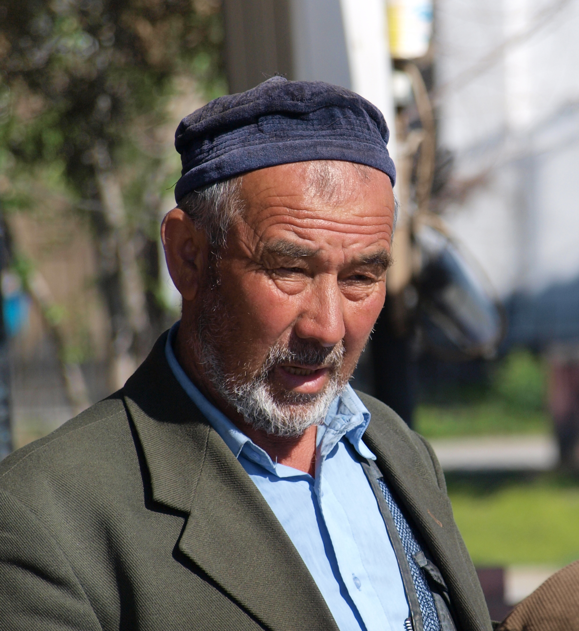 Kazakh man, Kazakhstan. Српски (ћирилица): Казах трговац у граду Туркестан, Казахстан.